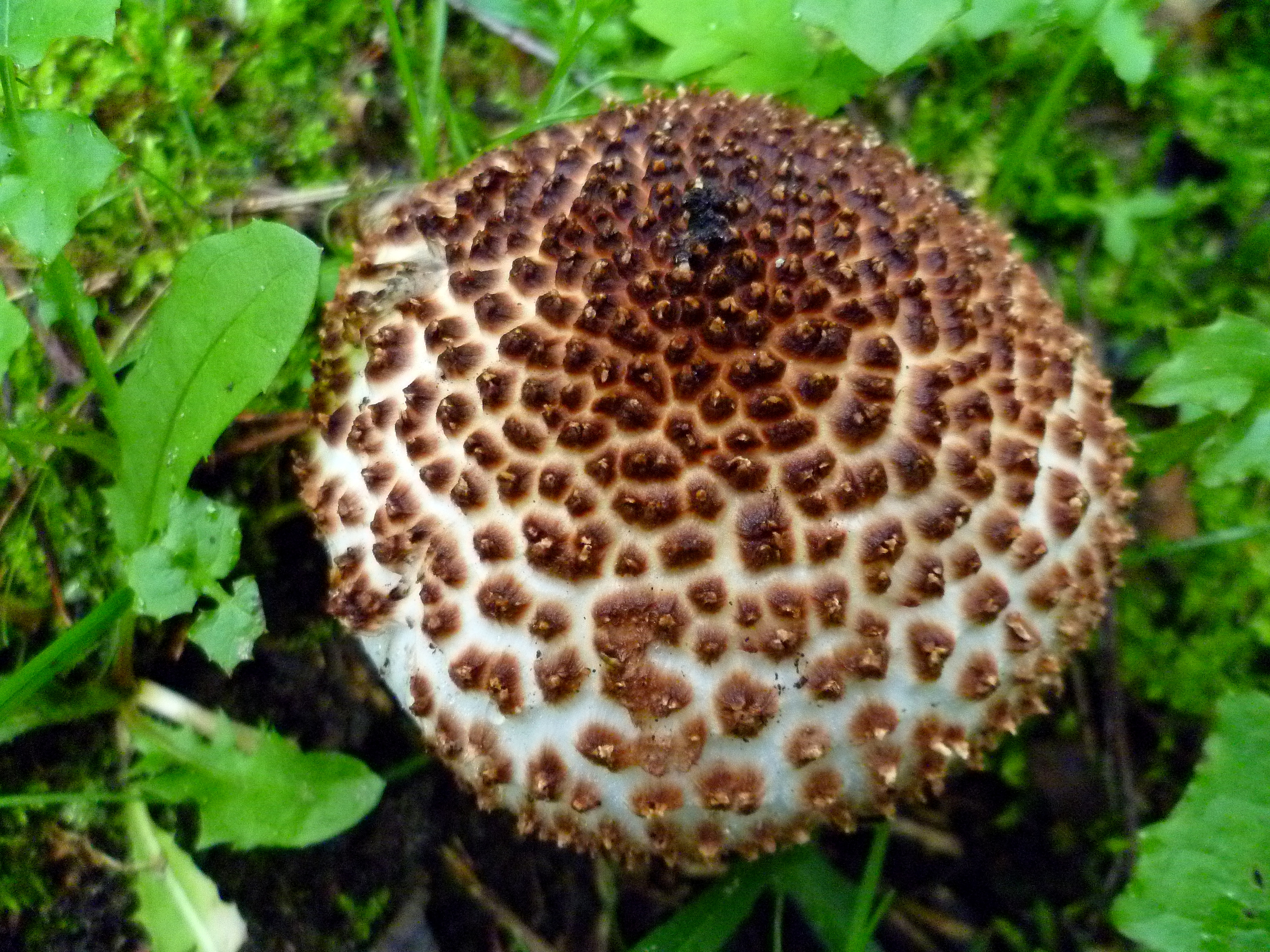 Lepiota aspera, syn. Echinoderma asperum